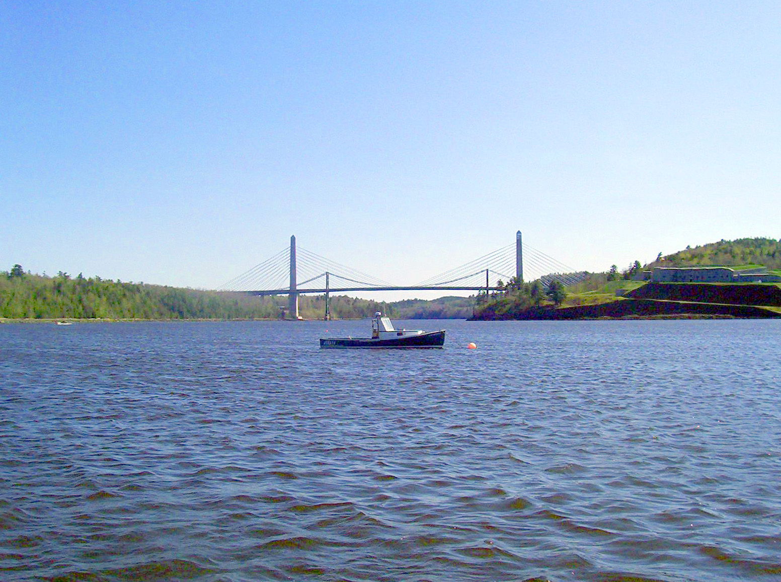 Penobscot Narrows Bridge, from the Bucksport waterfront. Fort Knox is to the right.